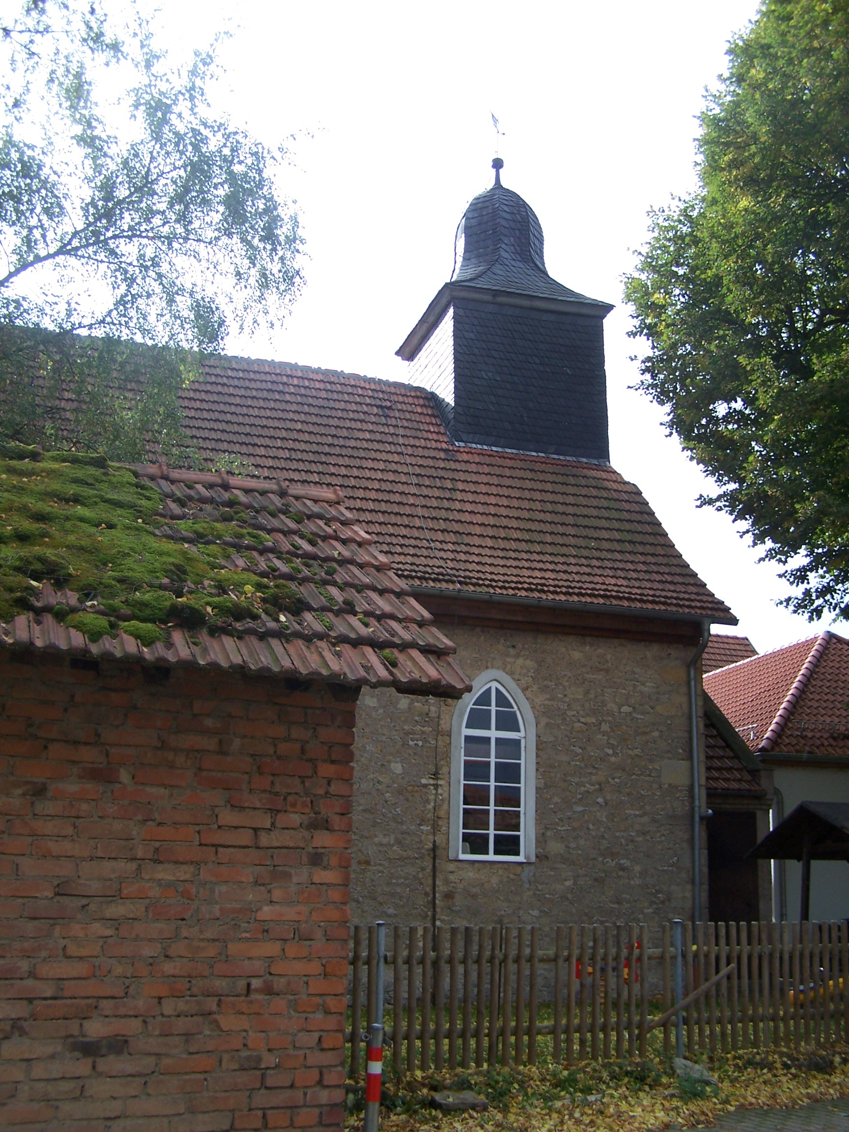 The church in Beuernfeld village.